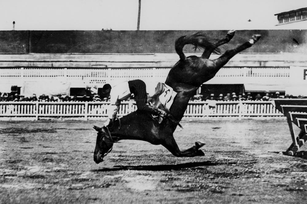 Horse stumbles after the jump, ca. 1927